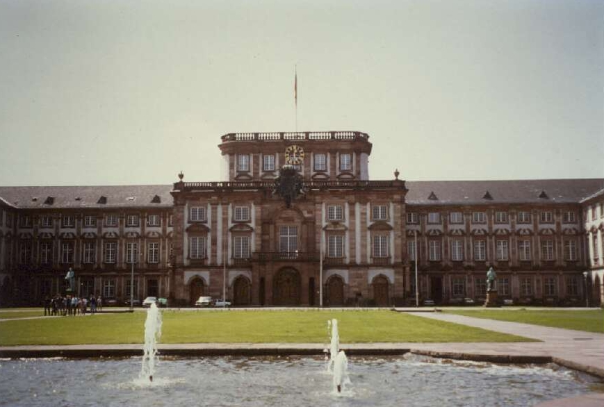 The Castle in Mannheim/Germany, which today harbours the university of the city; picture taken in 1992 by the author